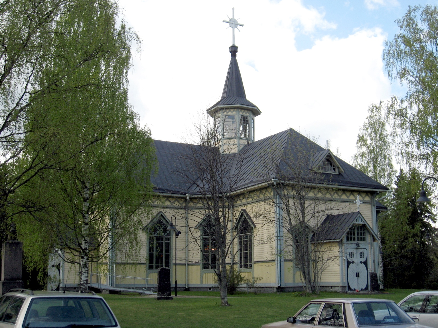 The church of Uurainen, Finland (May 24, 2008)